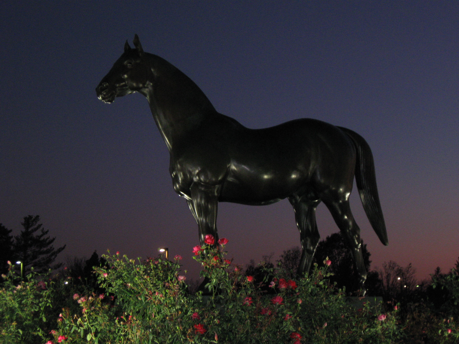 Man o' War statue at Kentucky Horse Park, Lexington, Kentucky